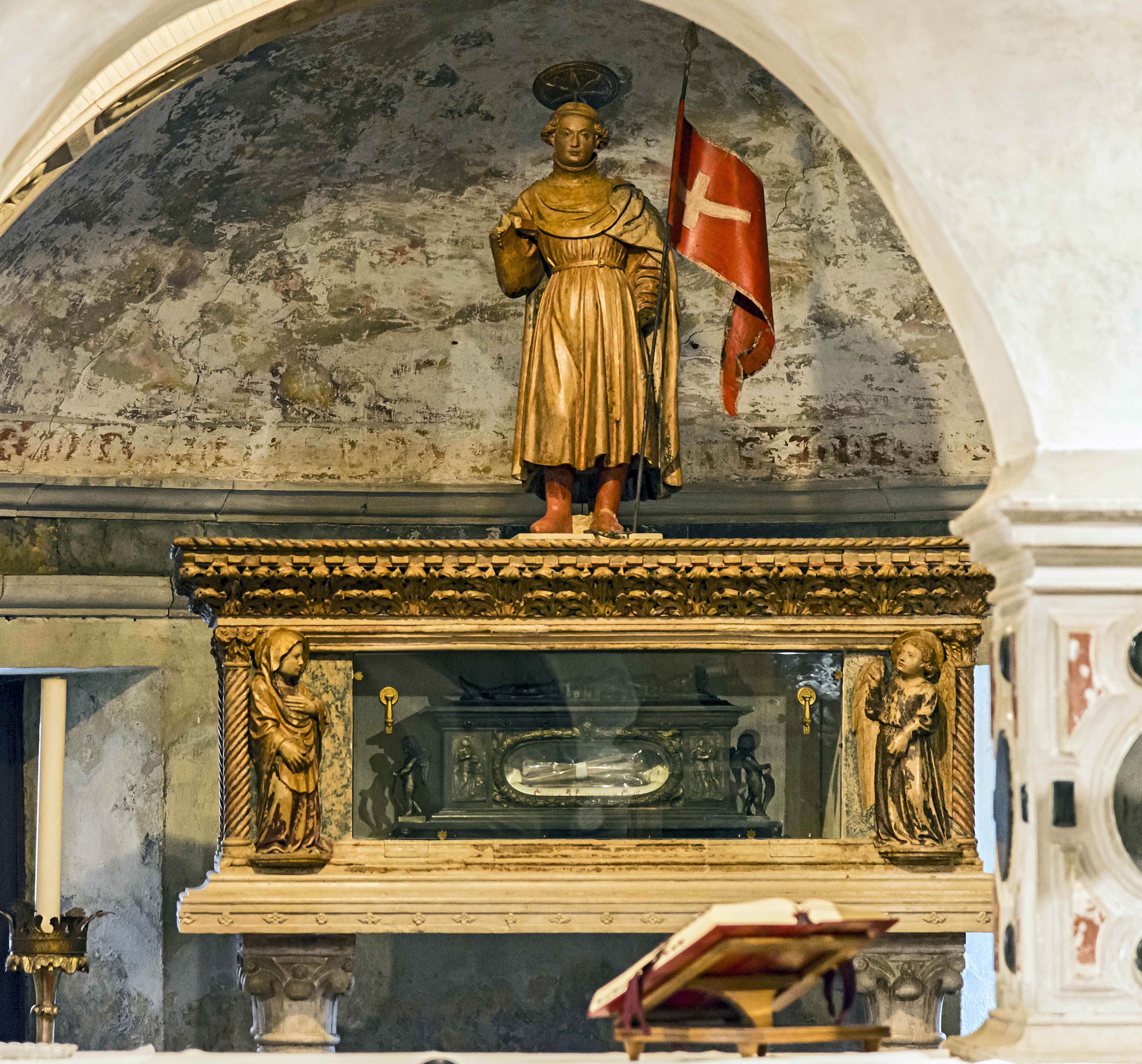 Treviso Cathedral - Reliquary of Liberalis of Treviso in the crypt (1403).